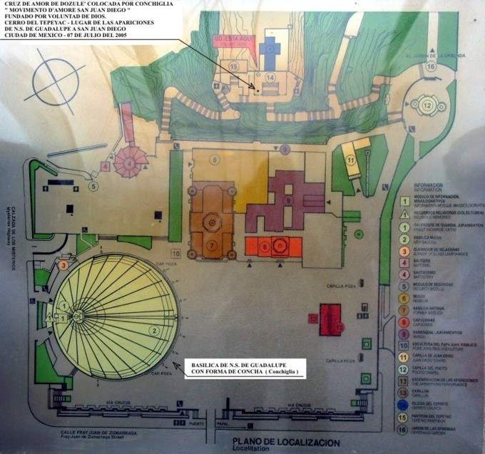 Map of the Shrine of Our Lady of Guadalupe in Tepeyac complex in Mexico City. Topographical Map of Tepeyac Hill info sign placed near the Basilica of Our Lady of Guadalupe, Mexico City. Erected by Conchiglia (Seashell) the Cross of Love of Dozulé on july 09, 2005.